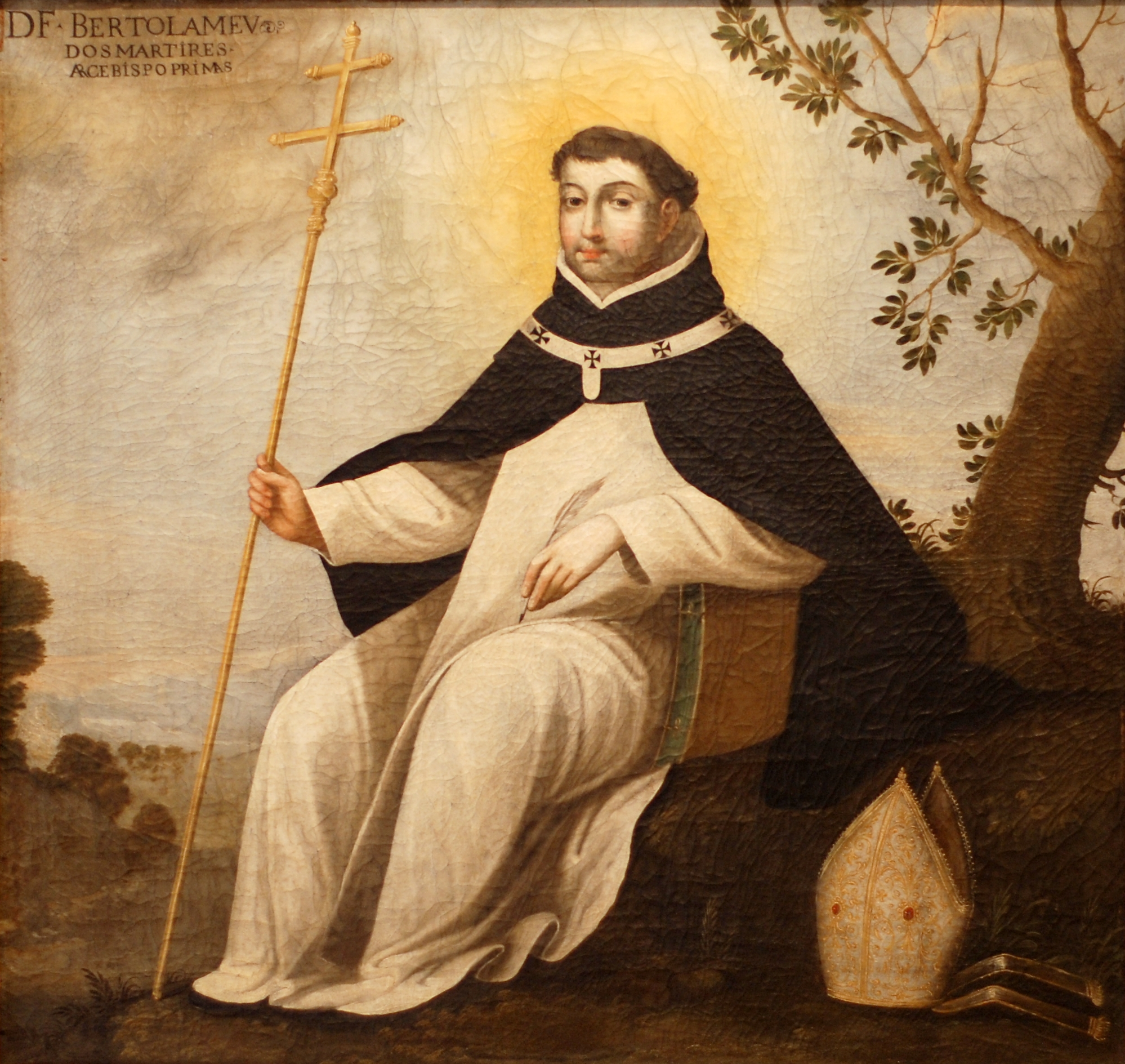 Brother Bartholomew of the Martyrs, bishop of Braga, by António André (1618-25). Museu de Aveiro, Portugal.